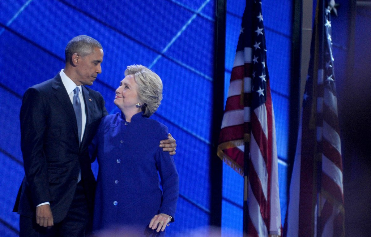 Barack Obama and Hillary Clinton